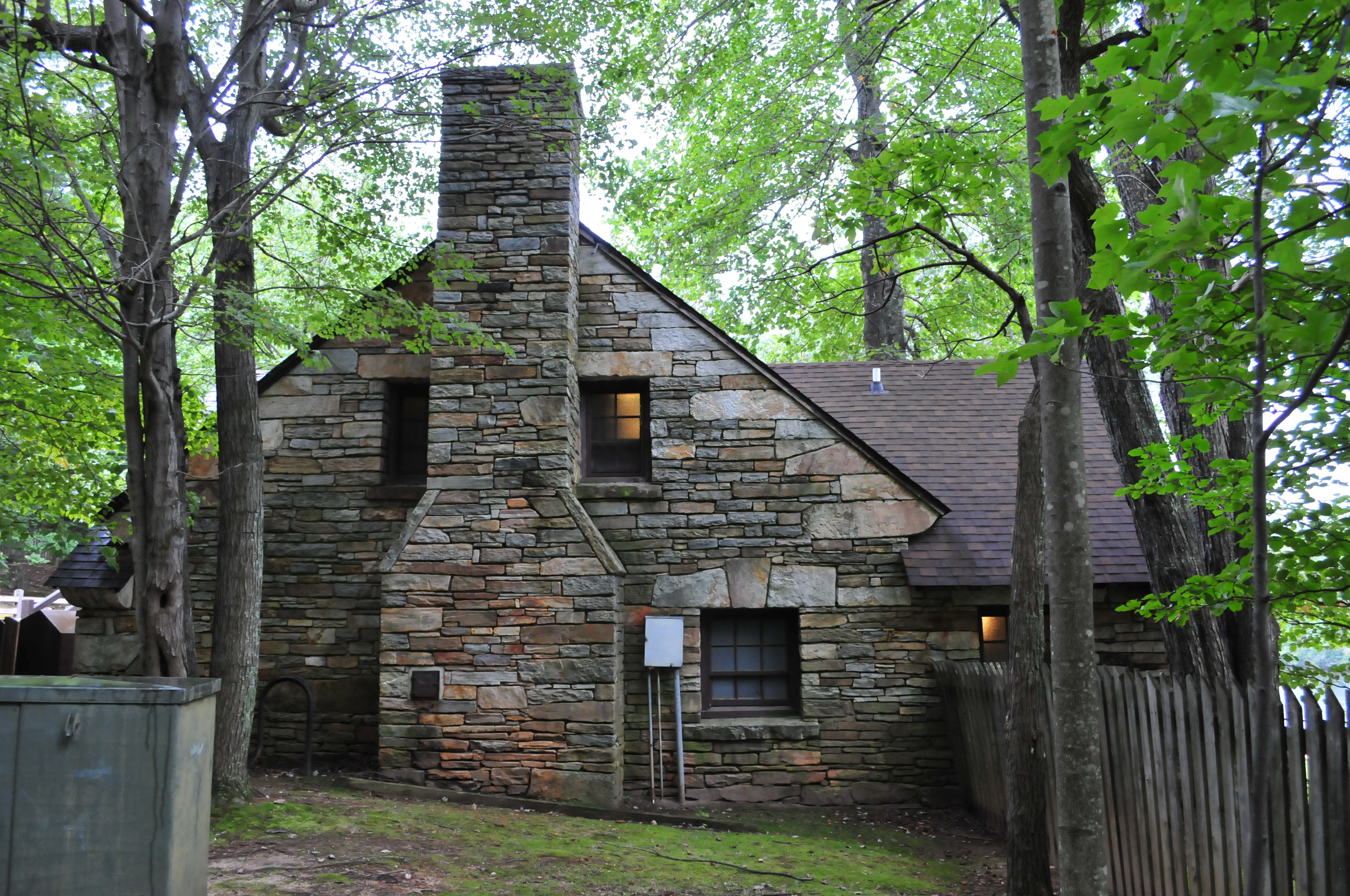 Hanging Rock State Park Bathhouse, End of NC 2015 S of jct. with NC 1001, Hanging Rock State Park Danbury